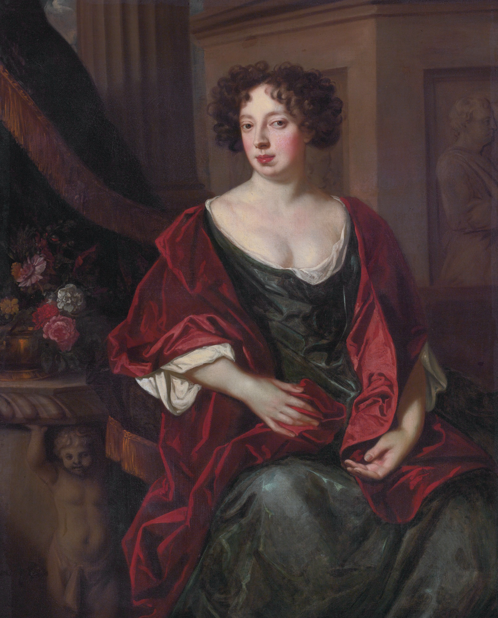 Lady Essex (née Rich) Finch, later Countess of Nottingham oil on canvas 124.5 x 101 cm